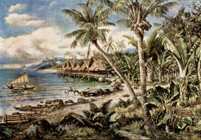 Bismarckarchipel